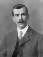 George Larner, double gold medallist in walking for Great Britain at the 1908 Summer Olympics.